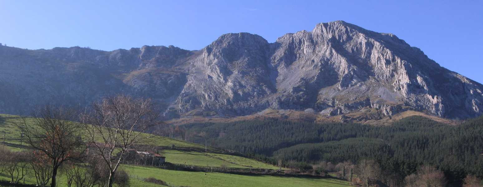 View of Mount Ailuitz, Biscay, Basque Country, Spain.